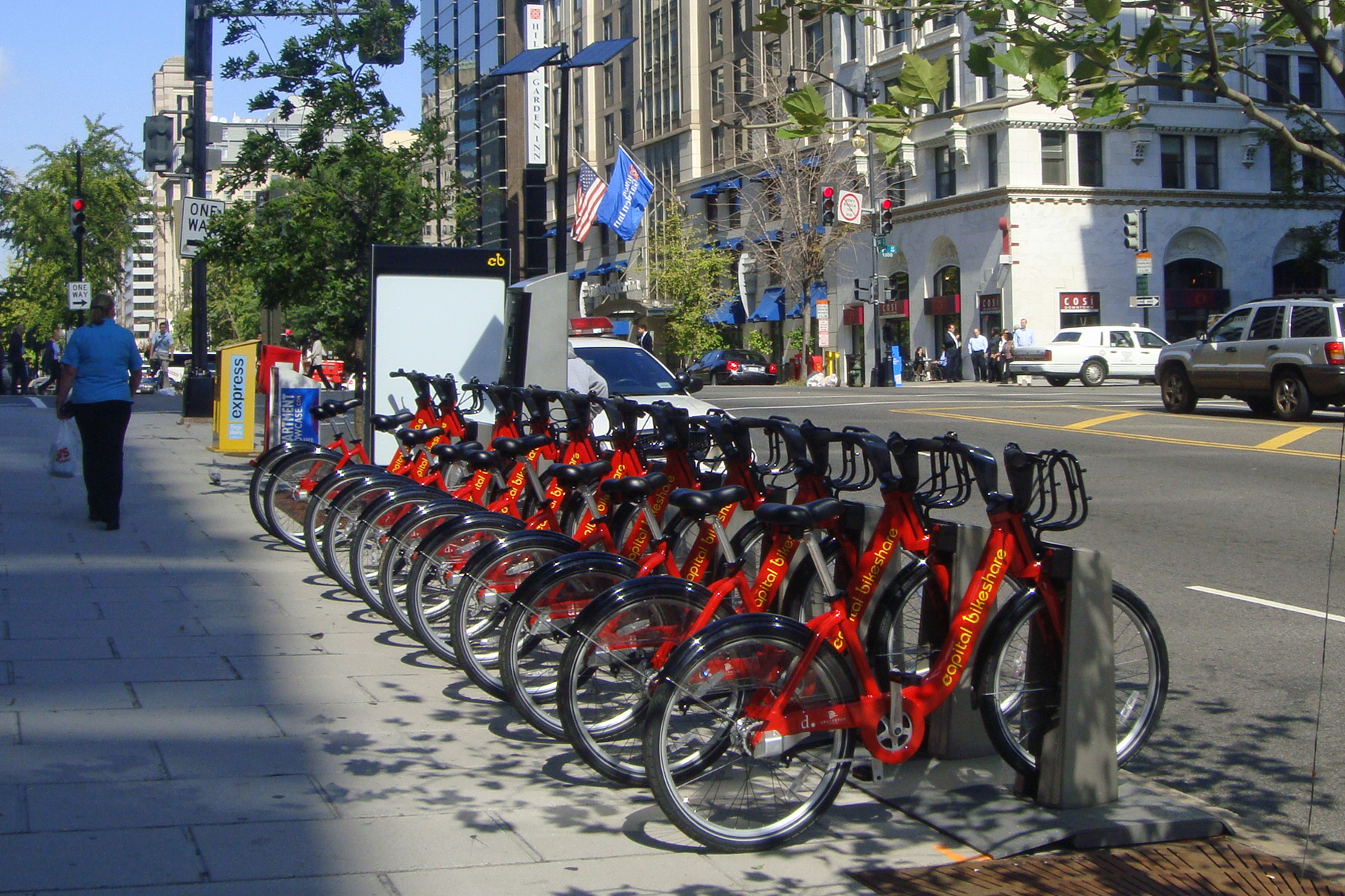 Capital Bikeshare rental station near McPherson Square Metro (WMATA) station, downtown Washington, D.C.